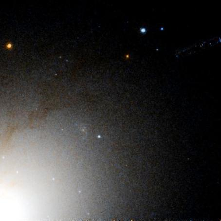 NGC 4105 - Hubble Space Telescope - Hubble Legacy Archive